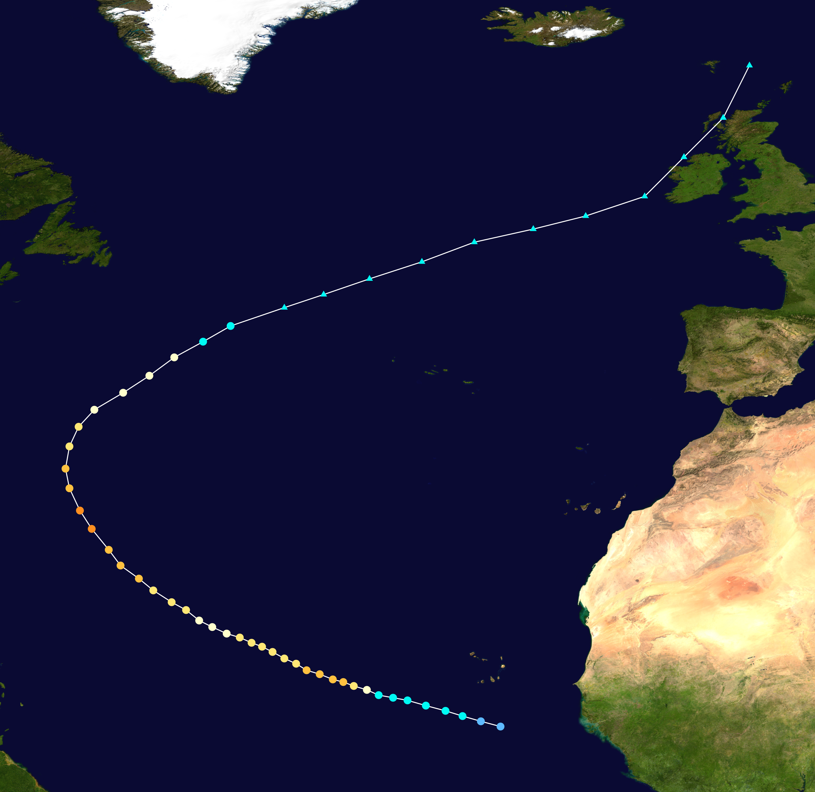 Track map of Hurricane Isaac of the 2000 Atlantic hurricane season. The points show the location of the storm at 6-hour intervals. The colour represents the storm's maximum sustained wind speeds as classified in the Saffir–Simpson scale (see below), and the shape of the data points represent the nature of the storm, according to the legend below. Saffir–Simpson scale Tropical depression≤38 mph≤62 km/h Category 3111–129 mph178–208 km/h Tropical storm39–73 mph63–118 km/h Category 4130–156 mph209–251 km/h Category 174–95 mph119–153 km/h Category 5≥157 mph≥252 km/h Category 296–110 mph154–177 km/h Unknown Storm type Tropical cyclone Subtropical cyclone Extratropical cyclone / Remnant low / Tropical disturbance